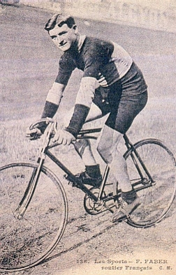 François Faber (26 January 1887, Aulnay-sur-Iton, Eure, France – died Carency, Pas-de-Calais, 9 May 1915)